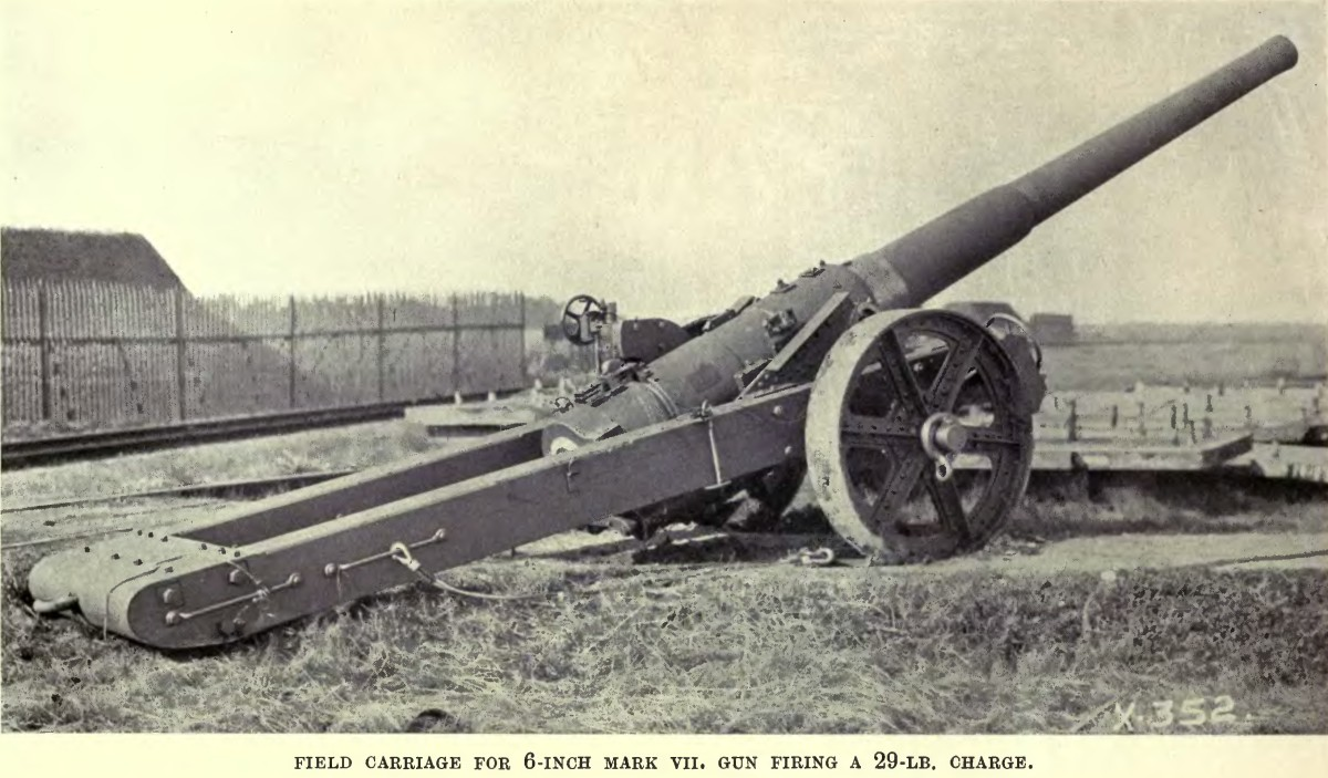 Photograph of British BL 6 inch Mk VII gun on the original field carriage designed by Admiral Percy Scott of the Royal Navy.